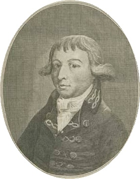 Nathaniel Portlock